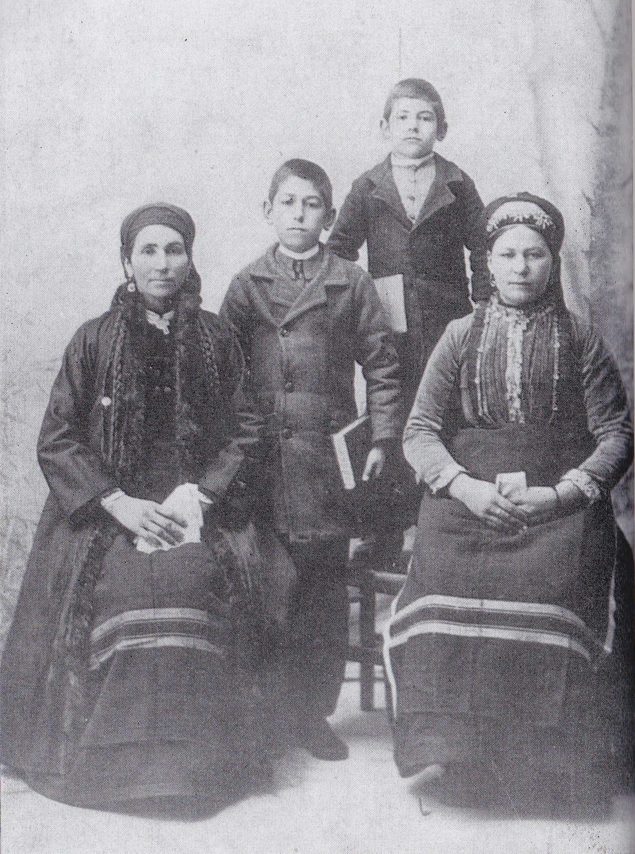 bulgarian revolutionary